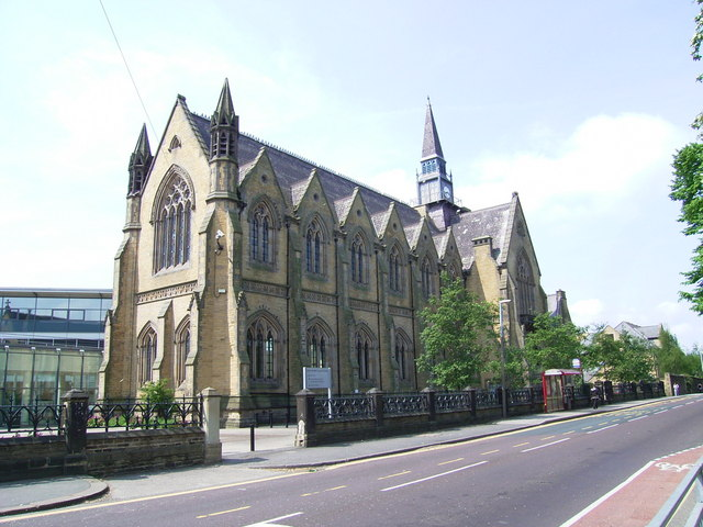 Leeds Grammar School Situated on Moorlands Road it was built in 1858-59 by E.M Barry; now used as The University Business School.